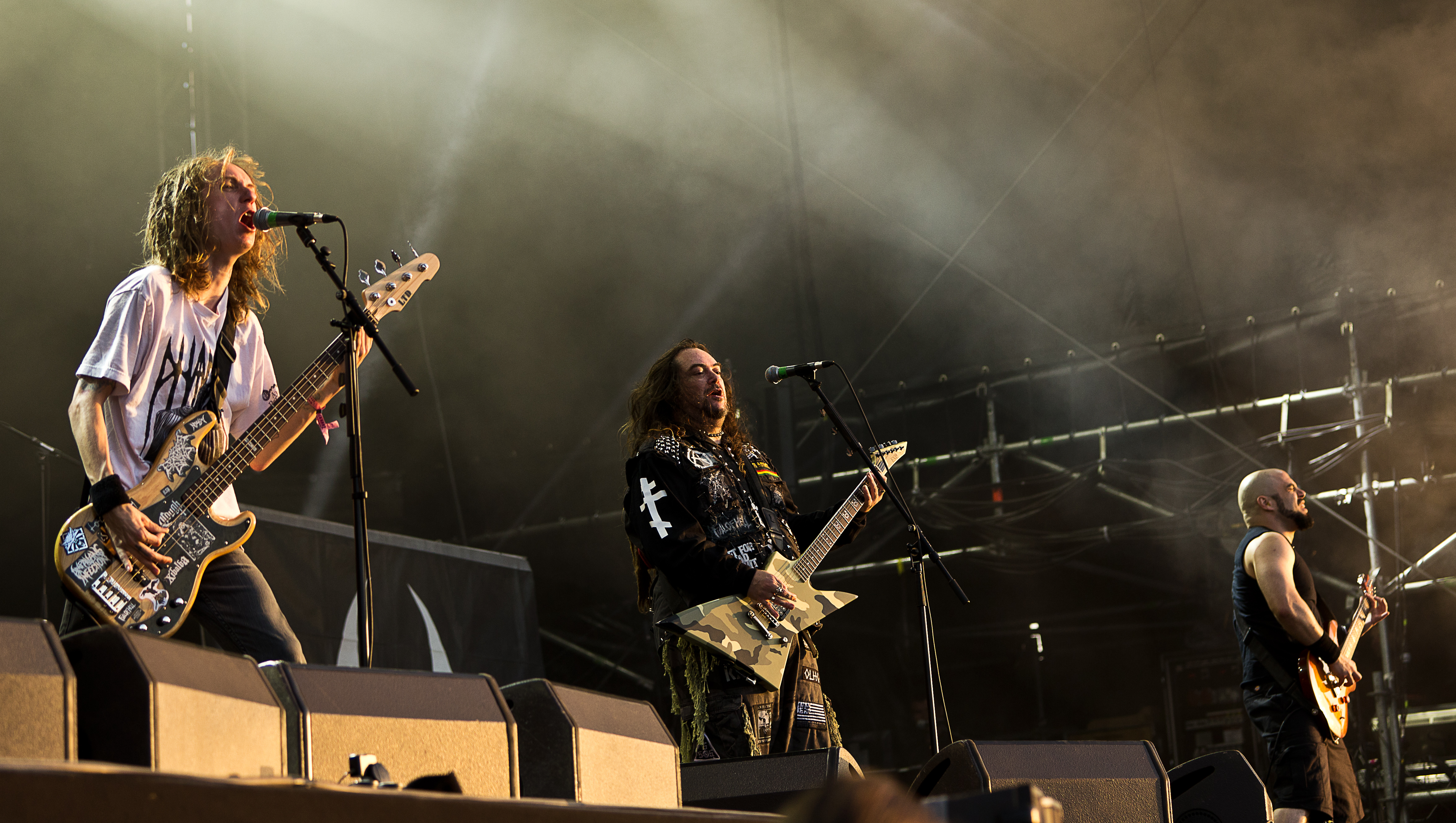 The American heavy metal band Soulfly at the Rockharz Open Air 2015 in Ballenstedt/Germany.